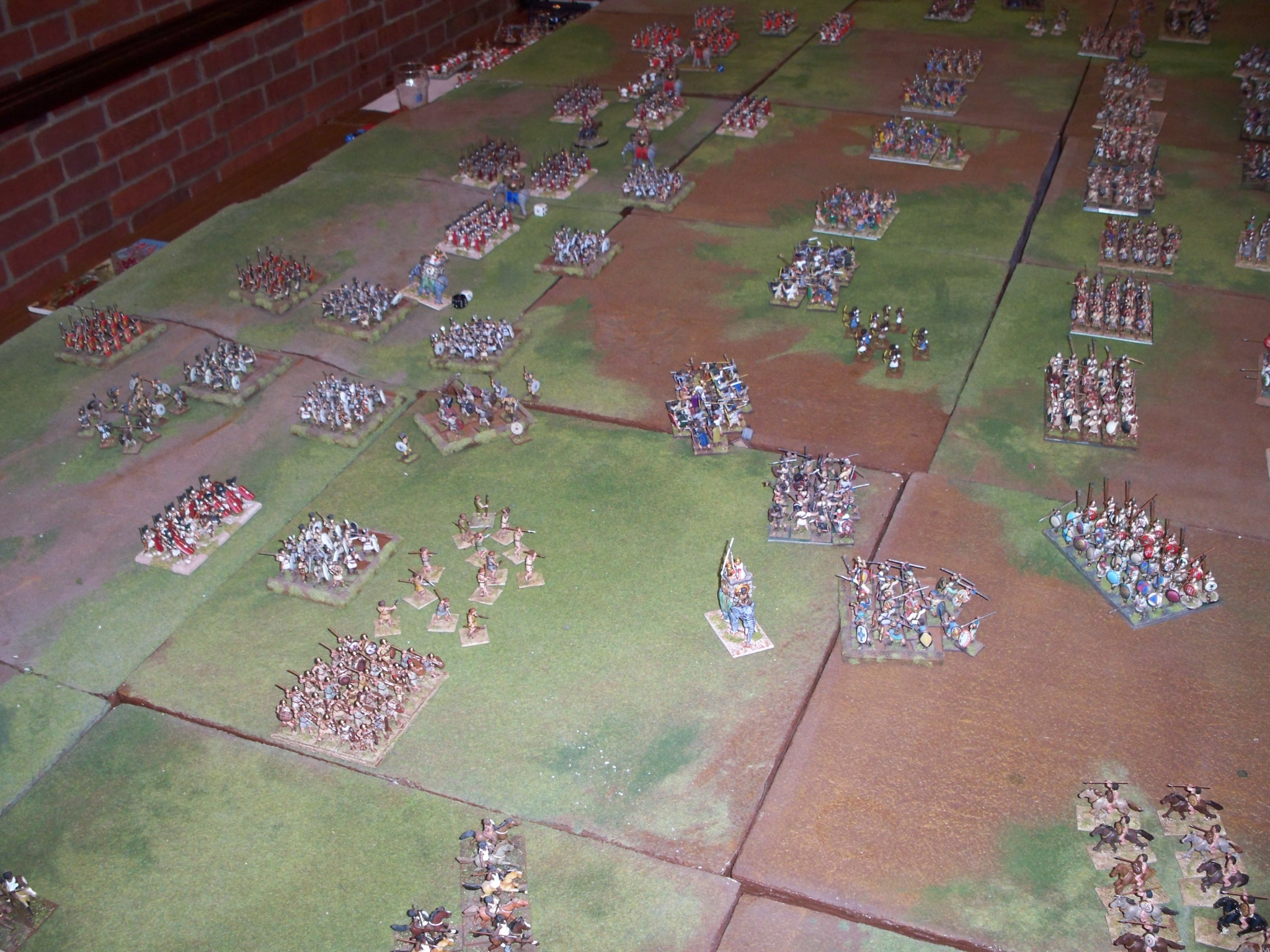 A recreation of the Battle of Zama using the Warhammer Ancient Battles ruleset. Game was played on the 17th April 2010 and the Society of Ancients Battle Day.